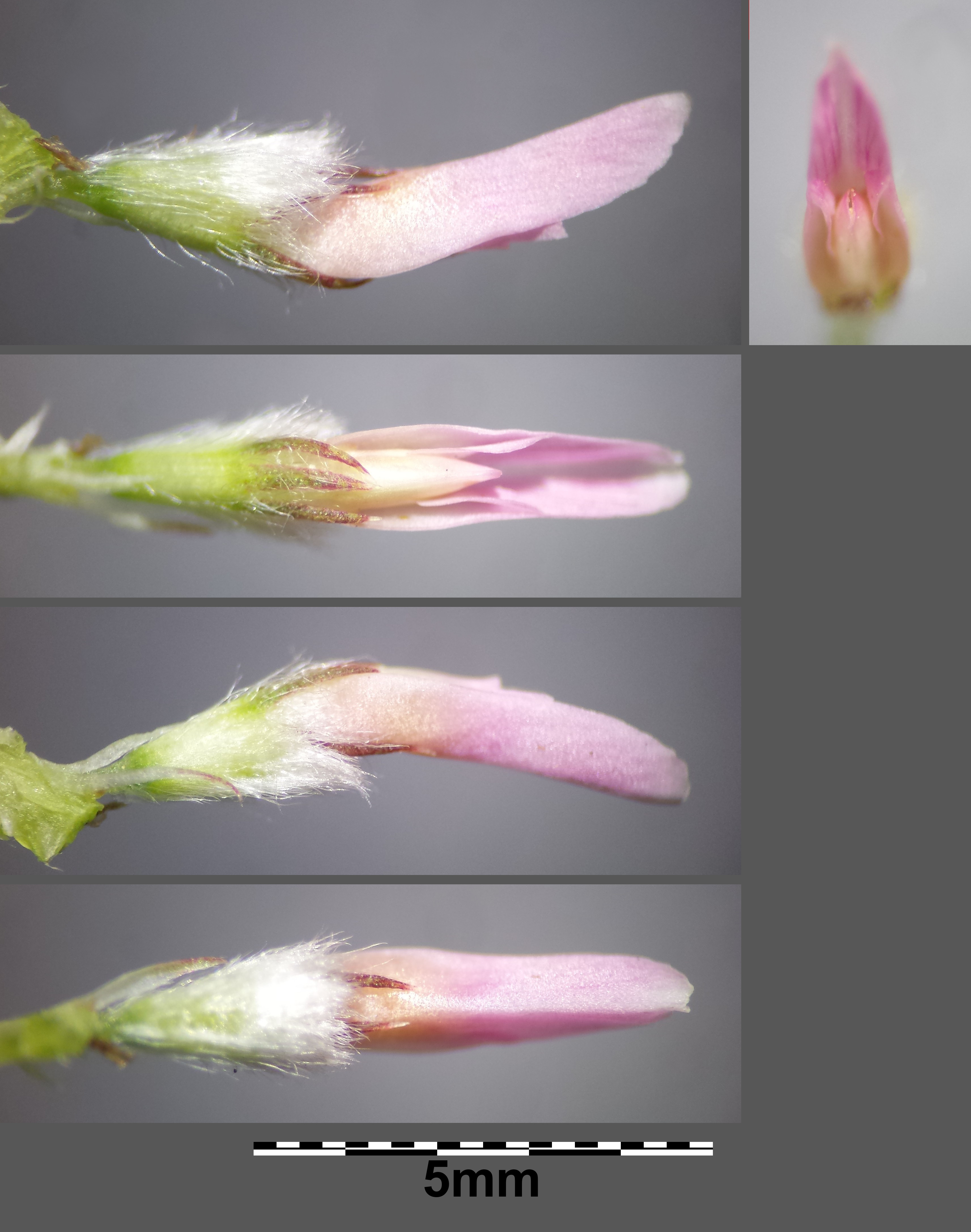 Flower Taxonym: Trifolium fragiferum (subsp. fragiferum) s. str. ss Fischer et al. EfÖLS 2008 ISBN 978-3-85474-187-9 Location: Donaupark, Vienna-Donaustadt - ca. 160 m a.s.l. Habitat: turf